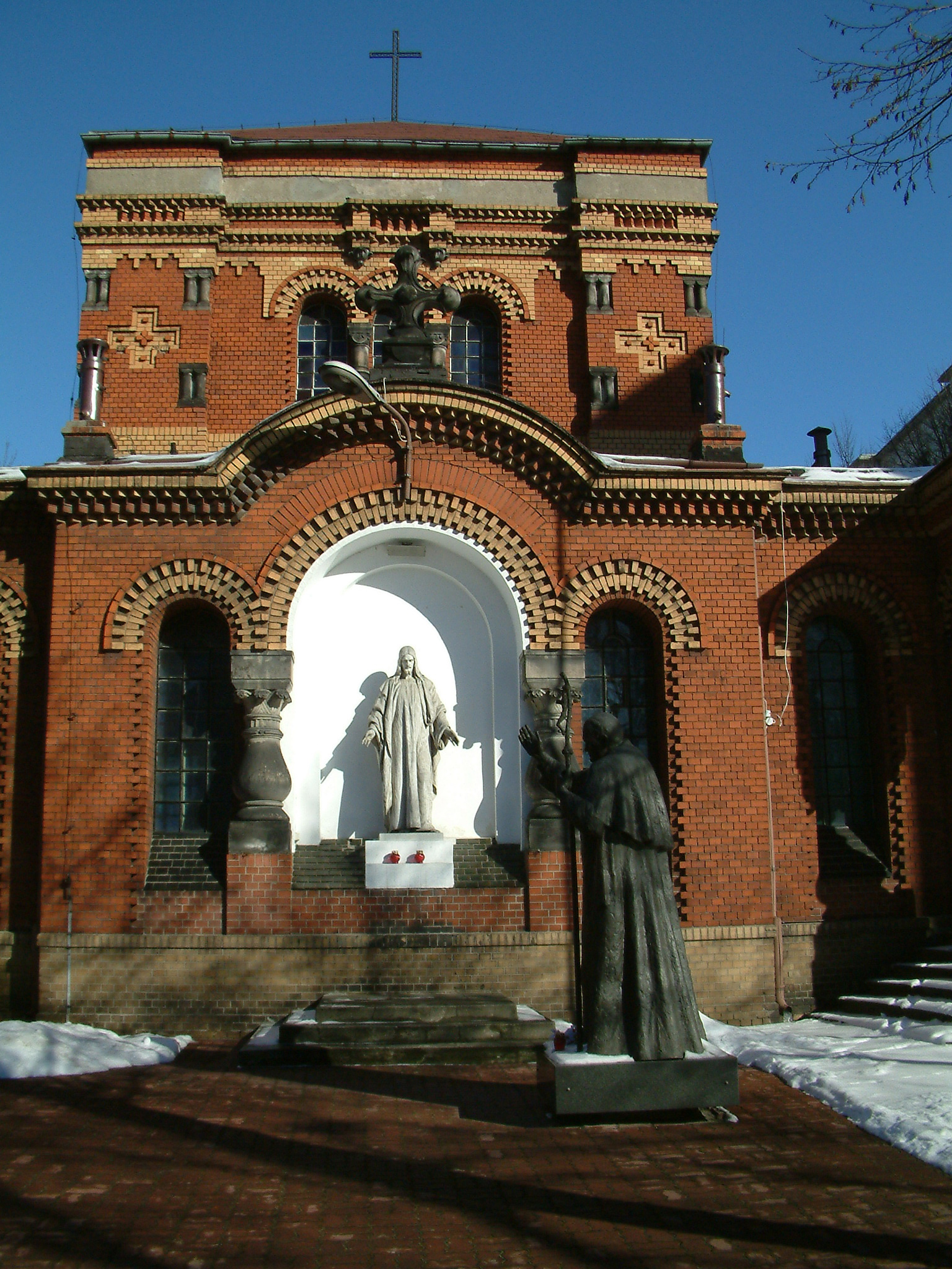 Saint George churche in Łódź